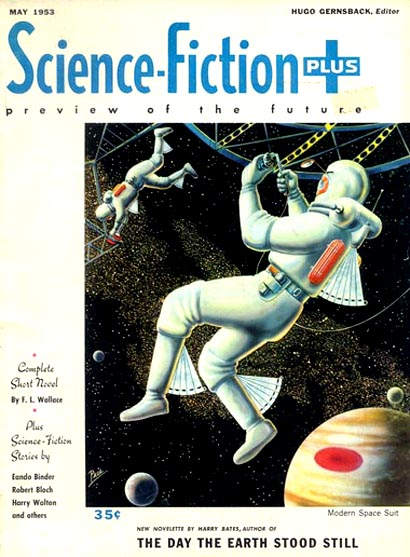 Cover of Science Fiction Plus, May 1953